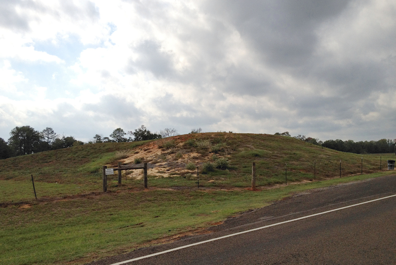 Caddo burial mound at the Caddo Mound Texas State Historic Site Park near Alto, Texas